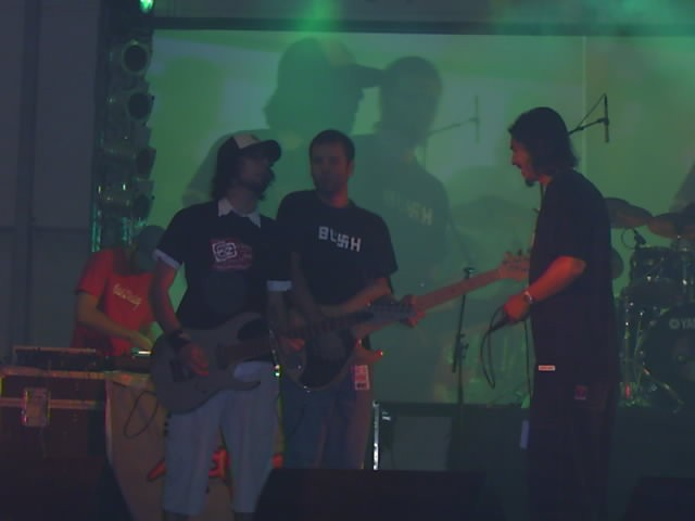 maNga concert. Sziget festival 2006, wan2 stage, 13 August. By Timea Baksa